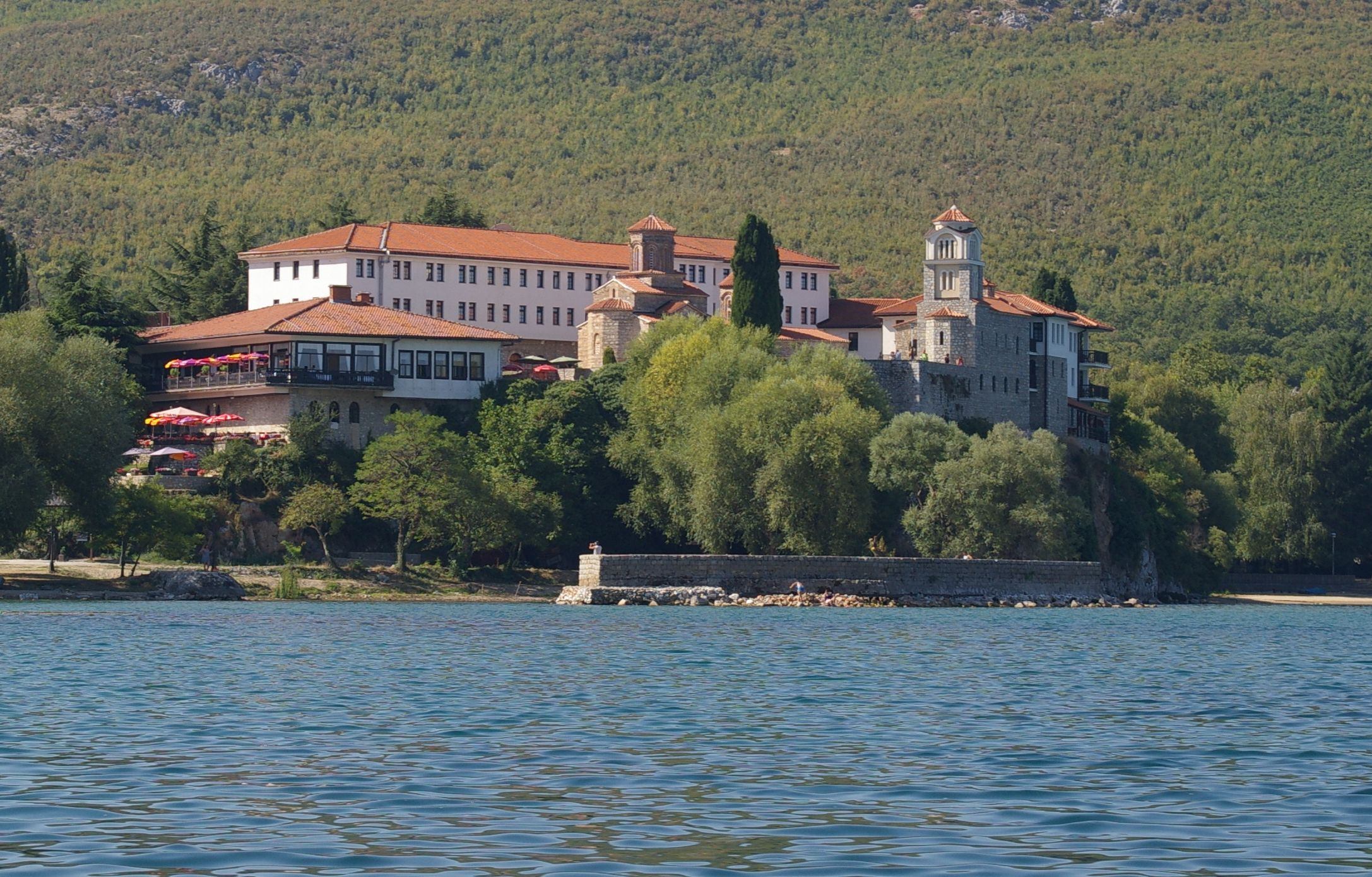 Monastery Saint Naum of Ohrid, Ohrid Lake, Macedonia